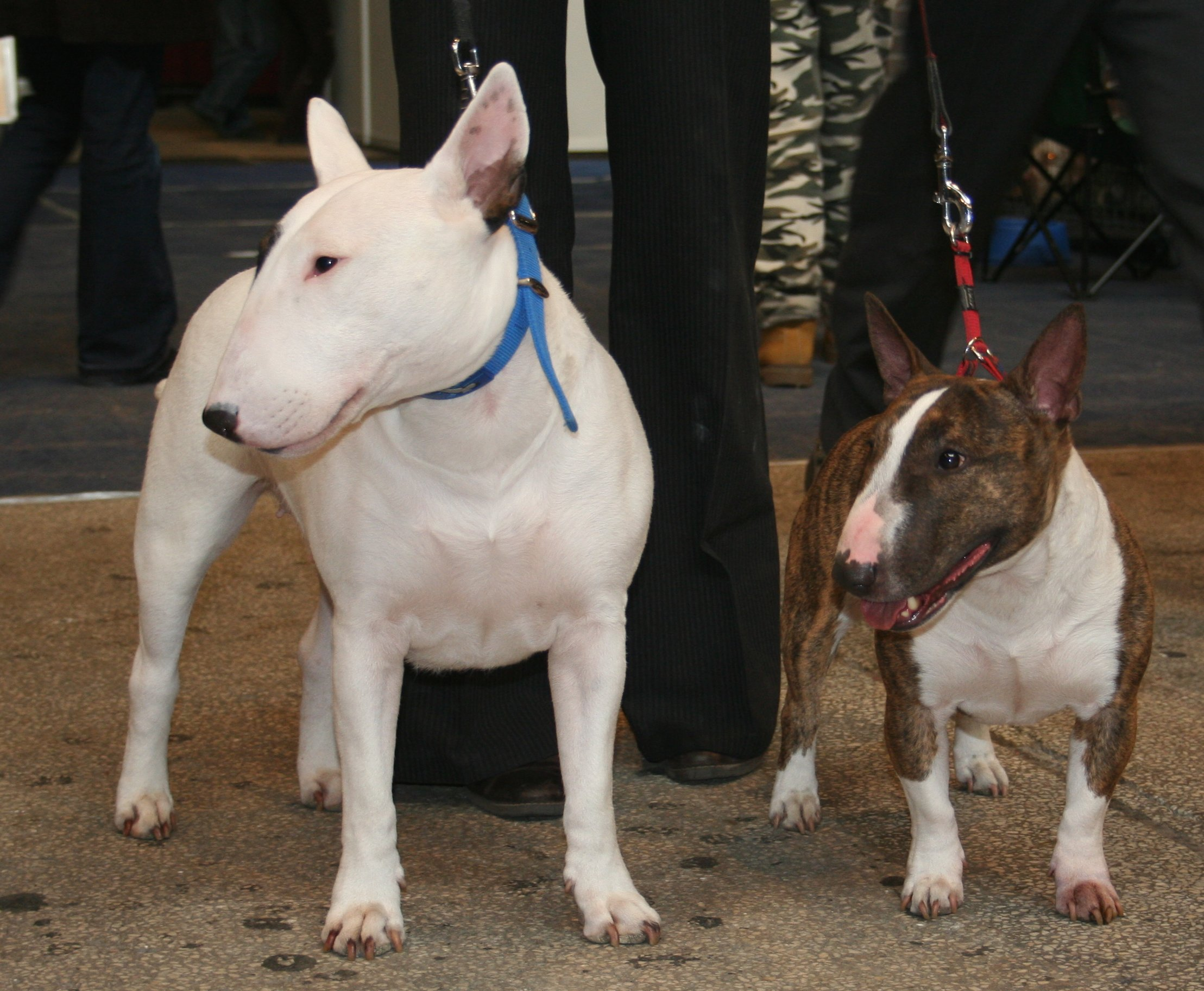 Bull_Terrier (standard - QUATTRO DZIEDZICTWO TUDORA)_and_Miniature Bull_Terier (Mooncraft's IN YOUR EYES)_during dogs show in Katowice, Poland